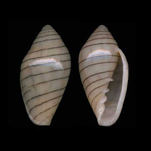 Species: Marginella diadochus Adams & Reeve, 1848 Distribution: Walvis Bay (Namibia) to Agulhas Bank Specimen: Luis Ferreira collection data: trawled deep water, 150 m Luderitz, Namibia L 19,6mm